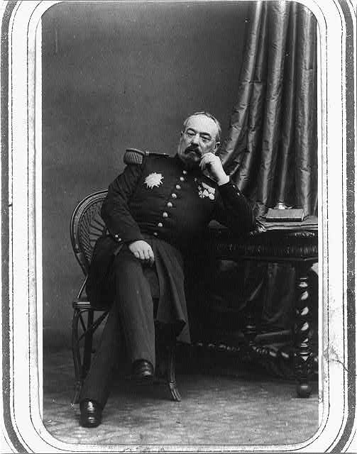 Photograph of French general François Bazaine while on campaign in Mexico from a public domain gallery in the Library of Congress.